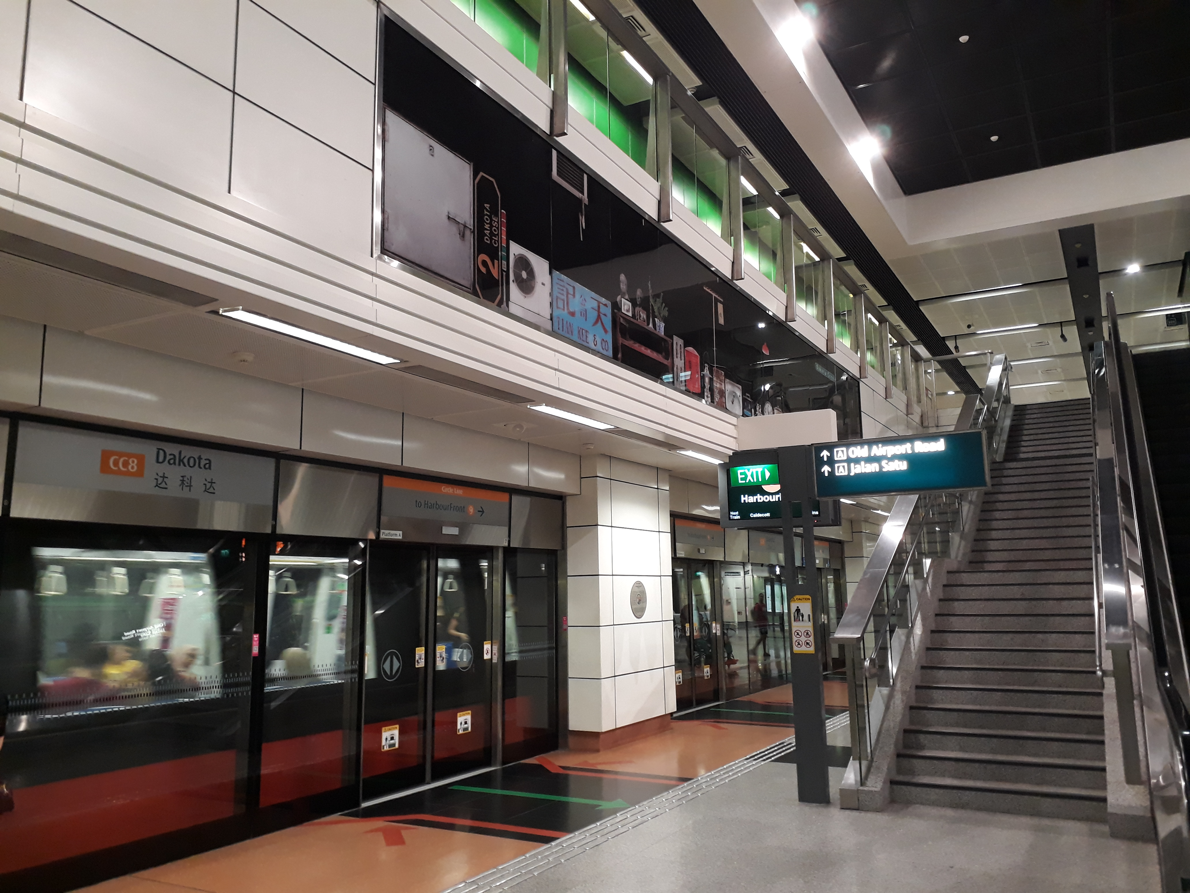 Dakota MRT Station